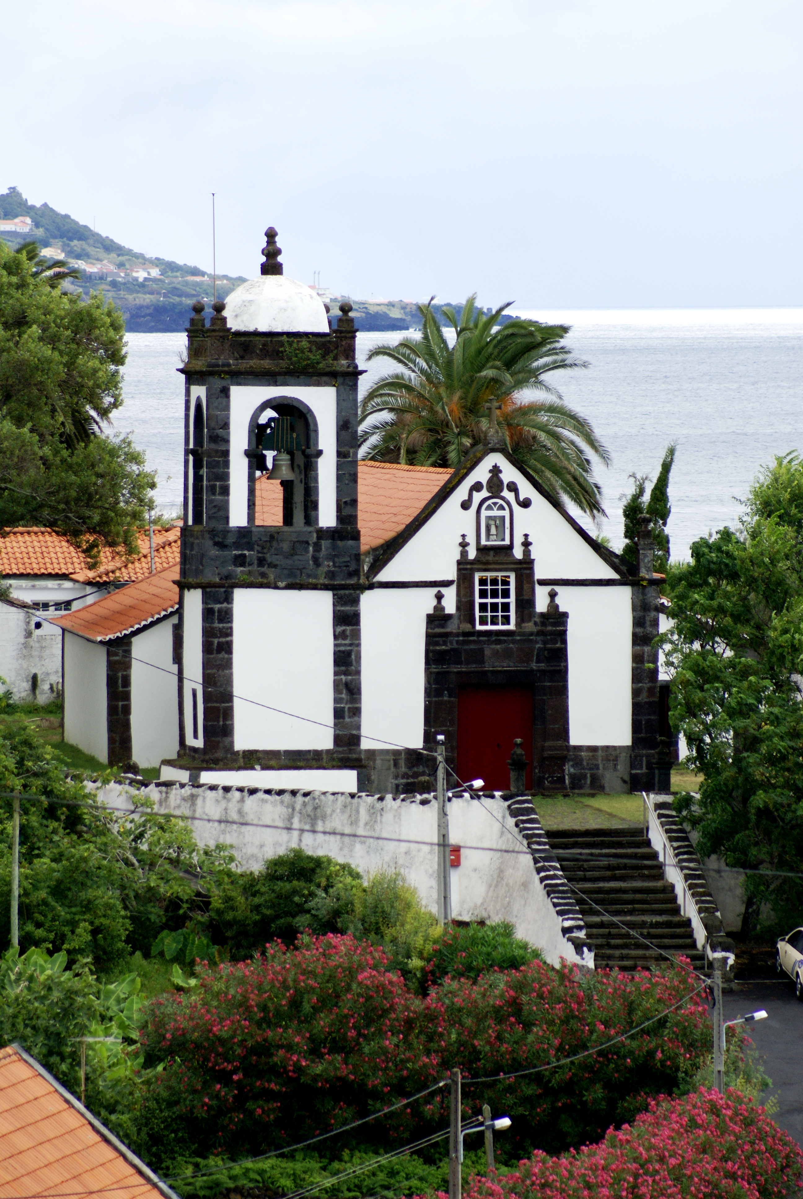 Front façade of the Church of Santa Bárbara, Manadas, Velas, São Jorge (Azores), Portugal